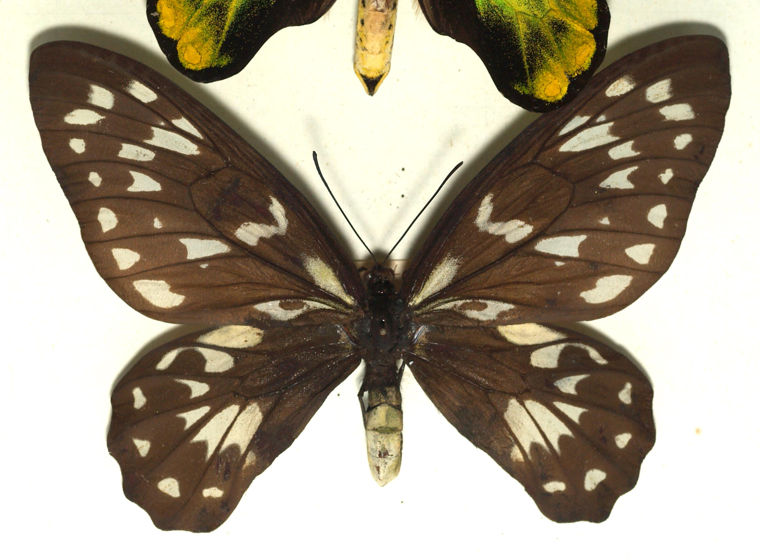 female Ornithoptera victoriae regis